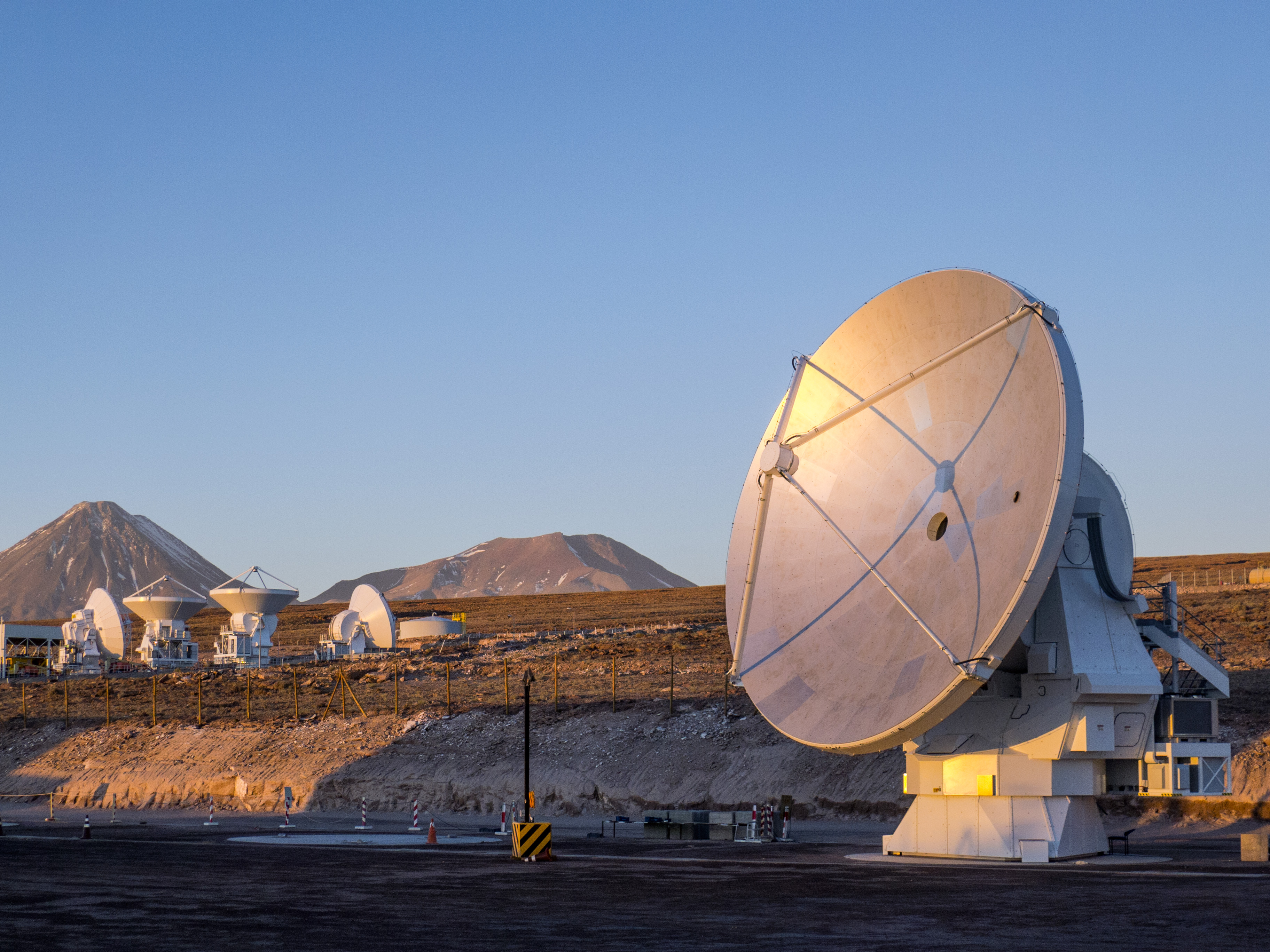 This picture shows the final antenna for the Atacama Large Millimeter/submillimeter Array (ALMA) project, shortly before it was handed over to the ALMA Observatory. The 12-metre-diameter dish was manufactured by the European AEM Consortium and also marks the successful delivery of a total of 25 European antennas — the largest ESO contract so far. The final antenna appears in the foreground on the right and several other antennas appear in the background.